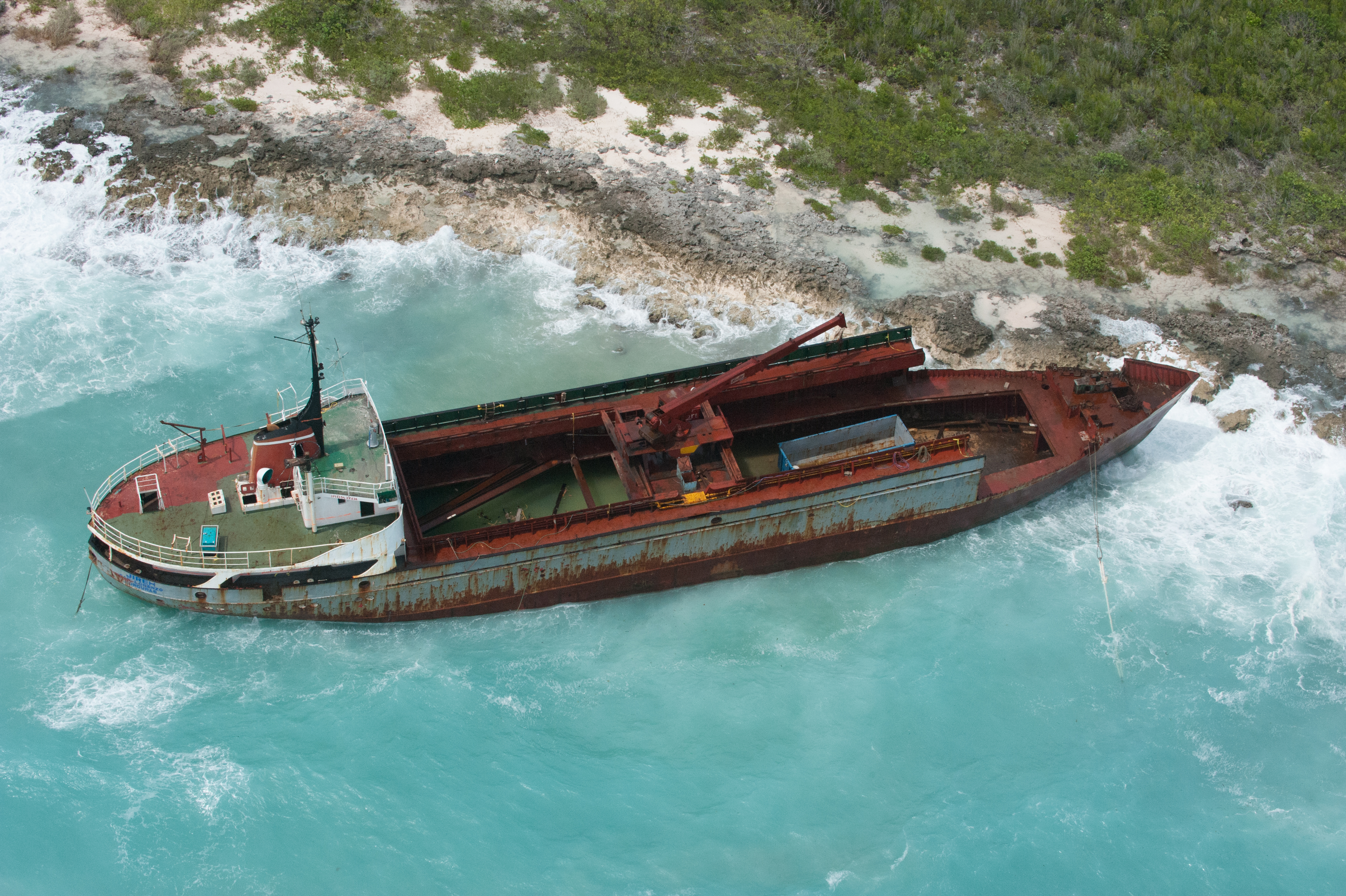 The 202-foot grounded freighter Jireh remains grounded after Tropical Storm Isaac on Mona Island, Puerto Rico Aug. 25, 2012. Response crews are removing sections of the ship to reduce weight, protect the hull and increase buoyancy before refloating and sinking the vessel. U.S. Coast Guard photo by Petty Officer 2nd Class Walter Shinn